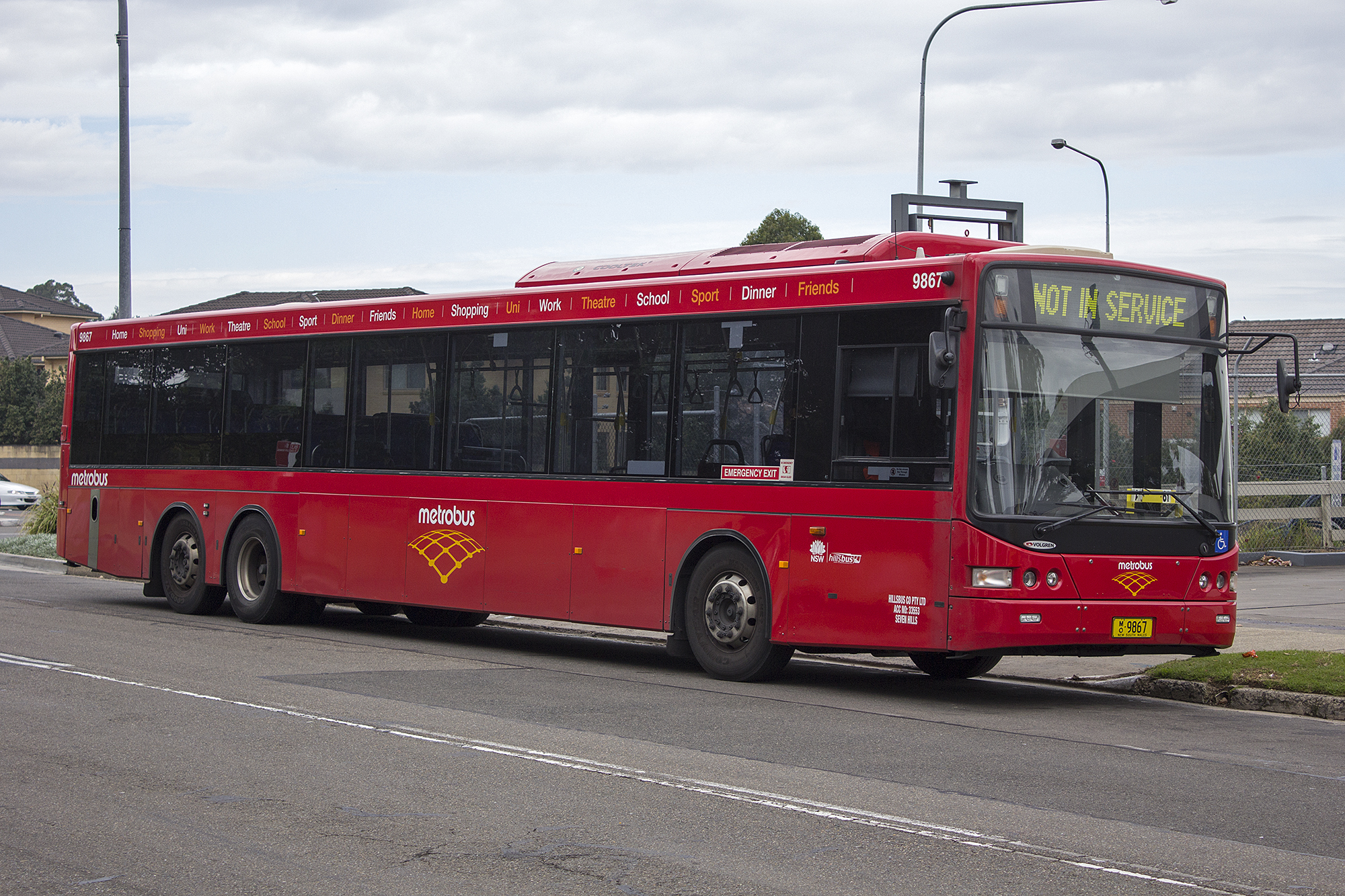 Metrobus liveried (mo 9867), operated by Hillsbus, Volgren 'CR228L' bodied Scania K280UB 14.5m at Castle Hill Interchange in Castle Hill, New South Wales.